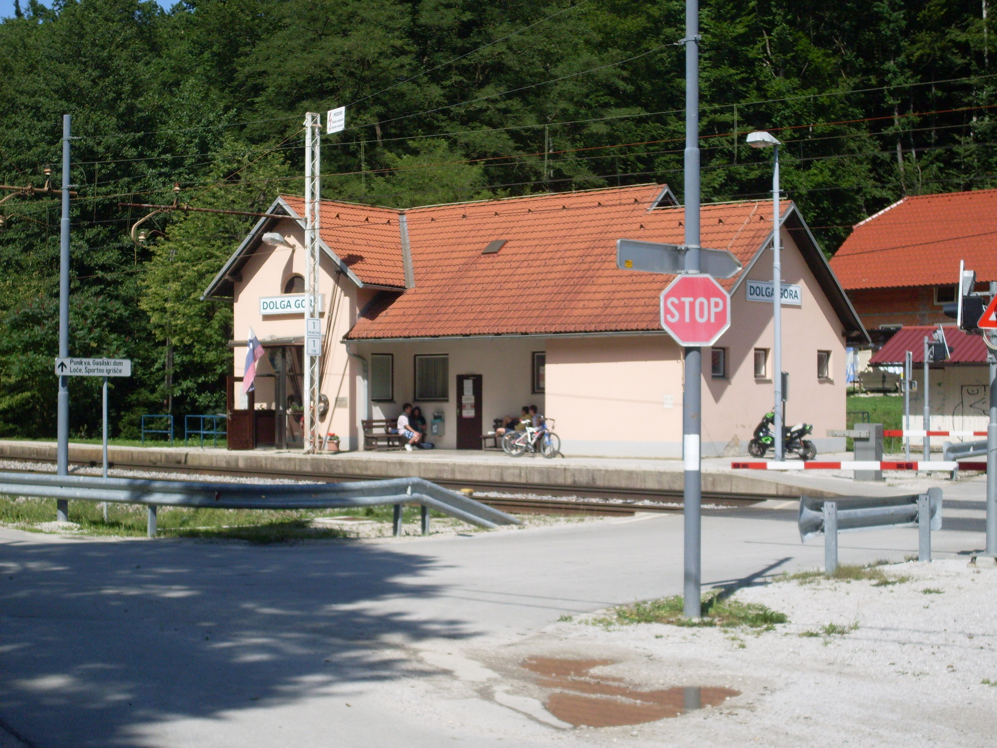 Train station in Dolga Gora (formerly Lipoglav)